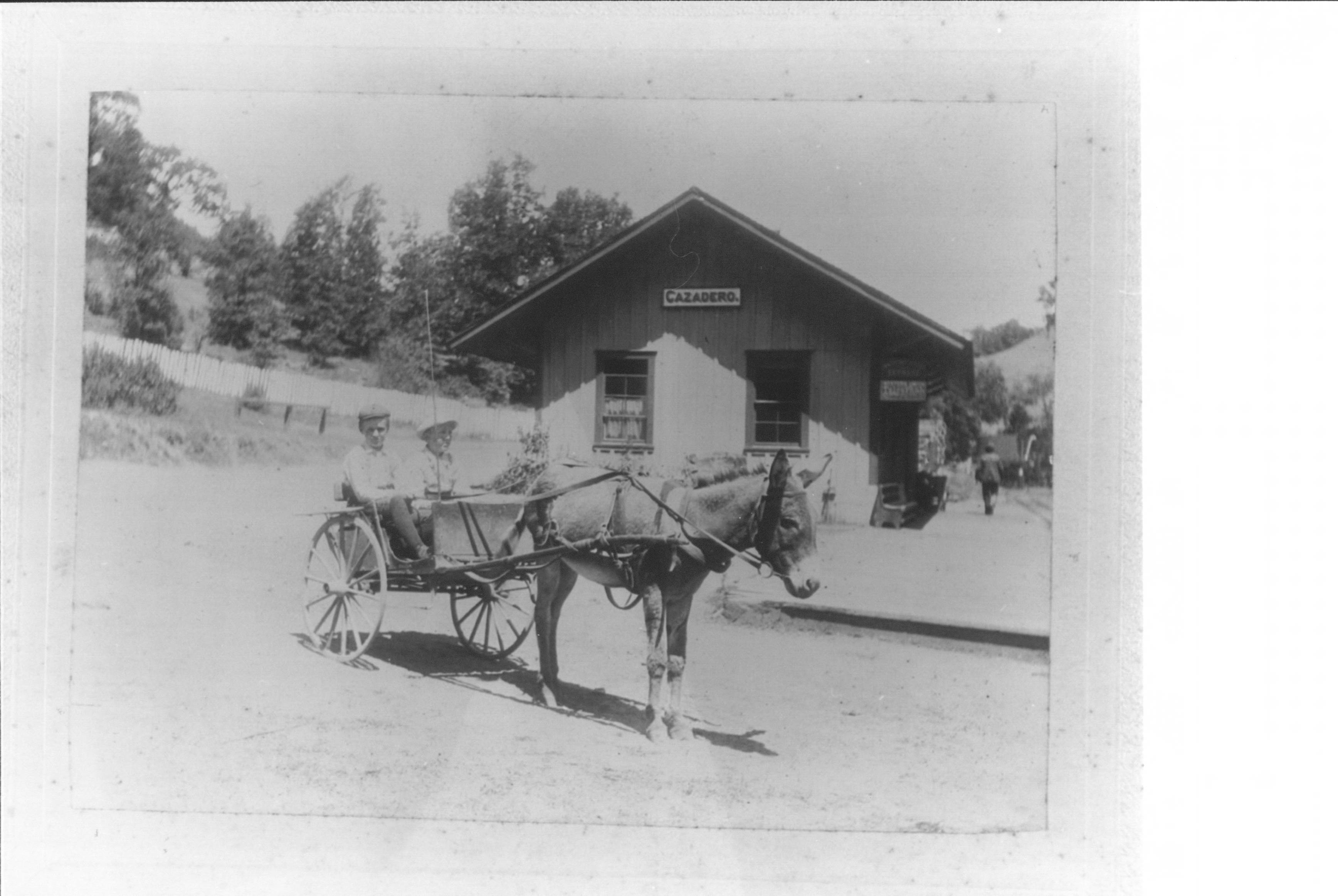 Two boys in a donkey cart at railroad depot in Cazadero, California.